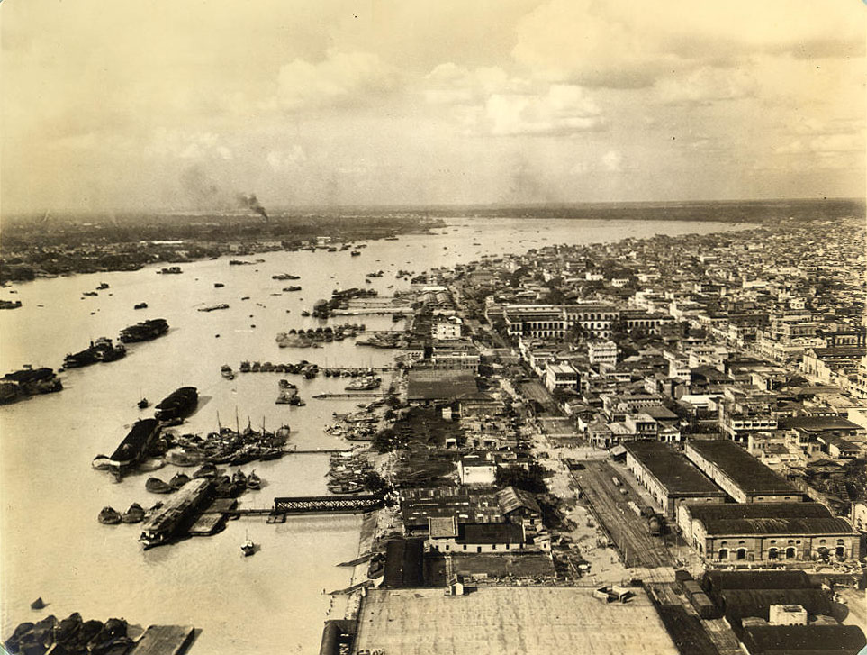 A photo of river Hooghly and Kolkata from a 1945 GI photo album, GIs in Calcultta, 1947: its description is, "Hooghly river and part of Calcutta's east bank. but for this [giant] stream Calcutta would likely never have been built---and for that matter, many of us [would] just as soon it hadn't. Nevertheless the river affords many spectacles and has accomodated millions of tons of supplies necessary to the war effort."